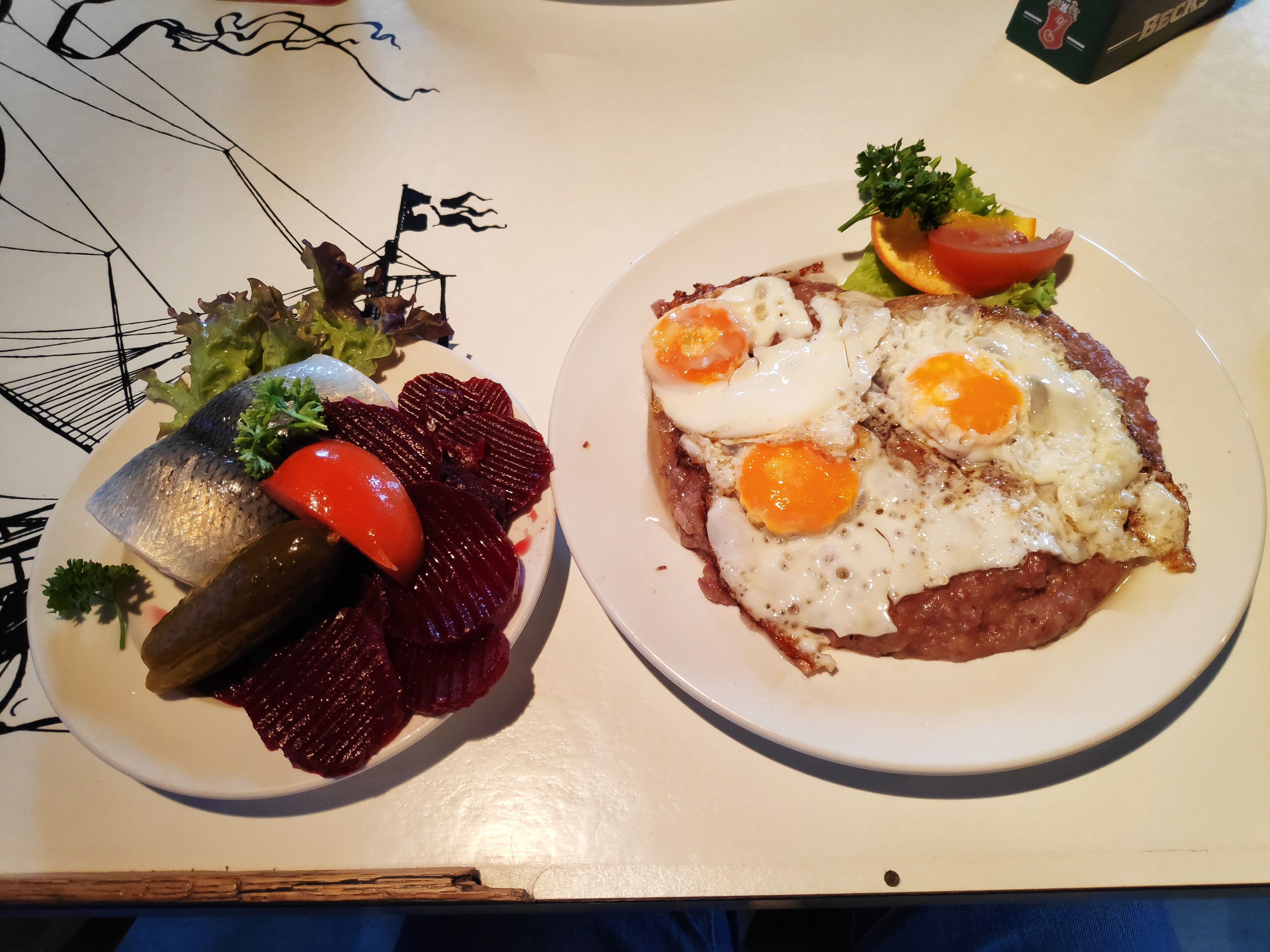 Labskaus in the restaurant Treffpunkt Kaiserhafen in Bremerhaven